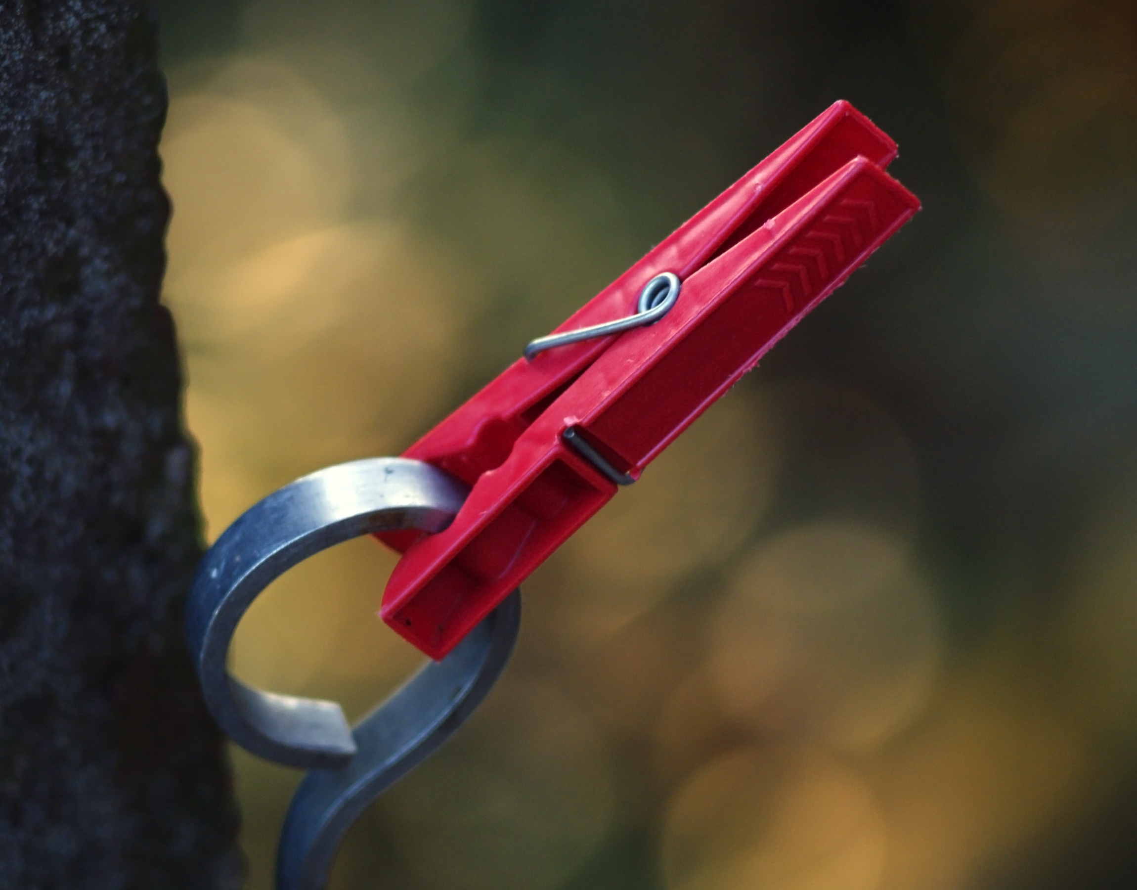 Red clothespin